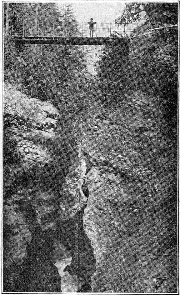 Gorge of river Rabiosa, Passugg, Switzerland.